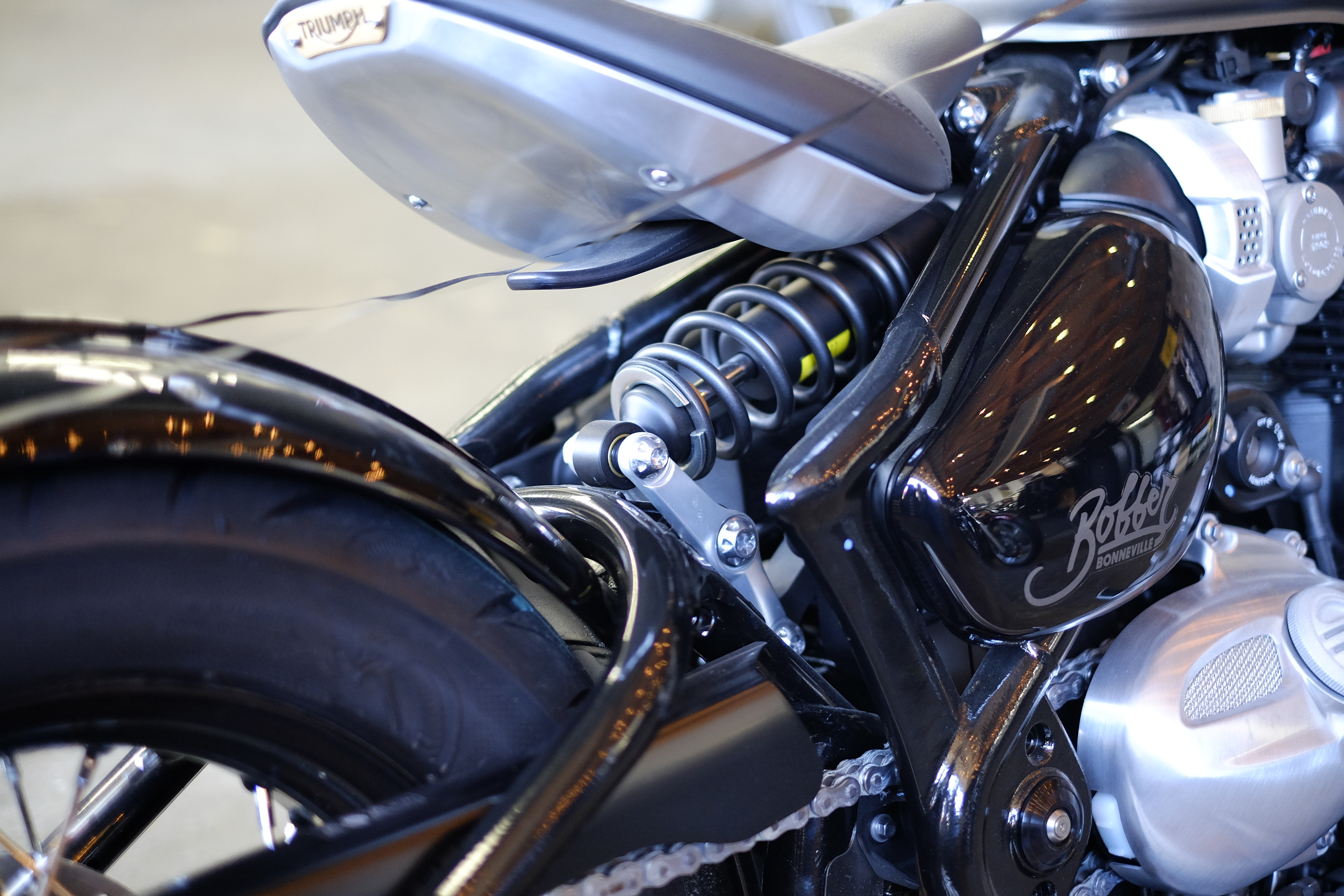 2017 Triumph Bonneville Bobber at Triumph of Seattle.